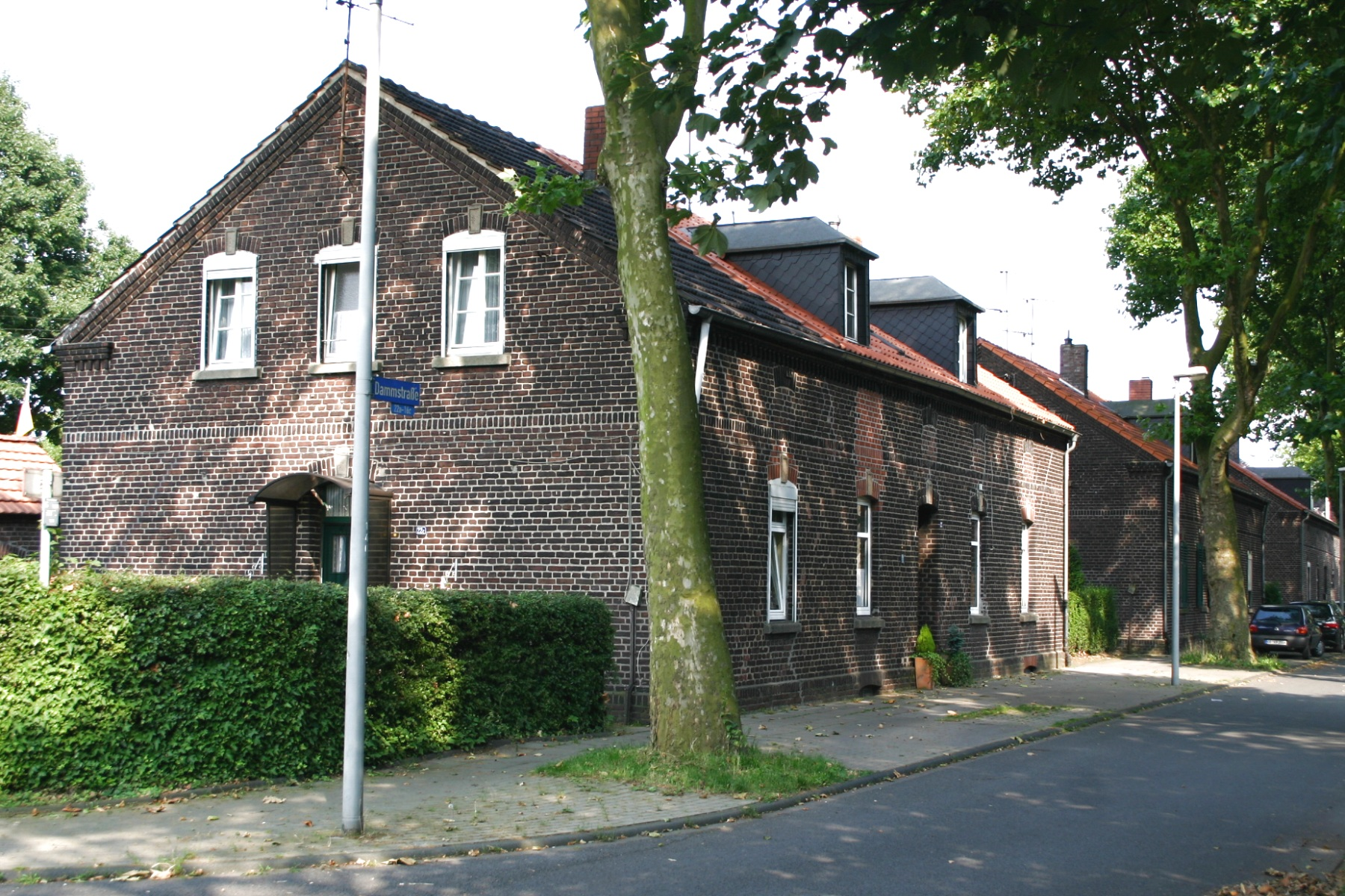 Former miners' colony "Dunkelschlag" in Oberhausen-Sterkrade (Germany)